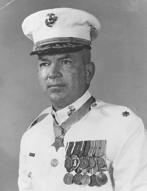 Henry A. Commiskey, Sr., United States Marine Corps, Korean War Medal of Honor recipient.